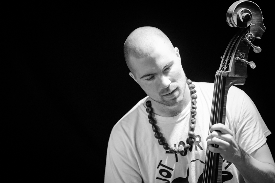 Christian Meaas Svendsen with Jon Rune Strøm Quintet in Energimølla. The concert was part of Kongsberg Jazzfestival and took place on 05. July 2018 in Kongsberg. Lineup:André Roligheten (saxophone)Thomas Johansson (trumpet)Jon Rune Strøm (double bass)Christian Meaas Svendsen (double bass)Andreas Wildhagen (drums)